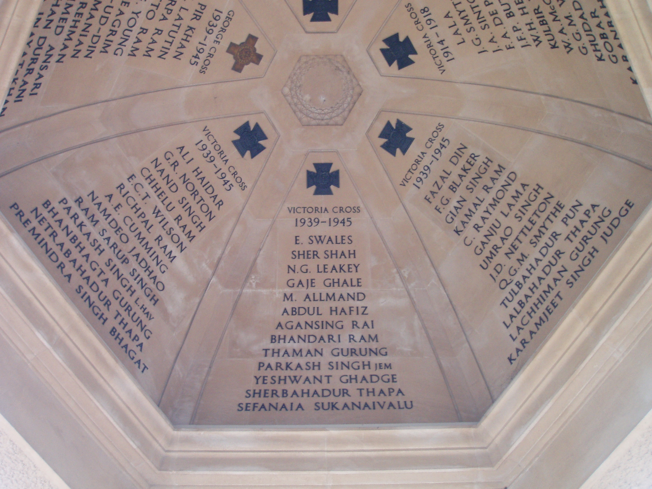 Part of a series of photos of the Memorial Gates, at the point where Constitution Hill meets Hyde Park Corner and the Wellington Arch, London, UK. 28/02/2010.